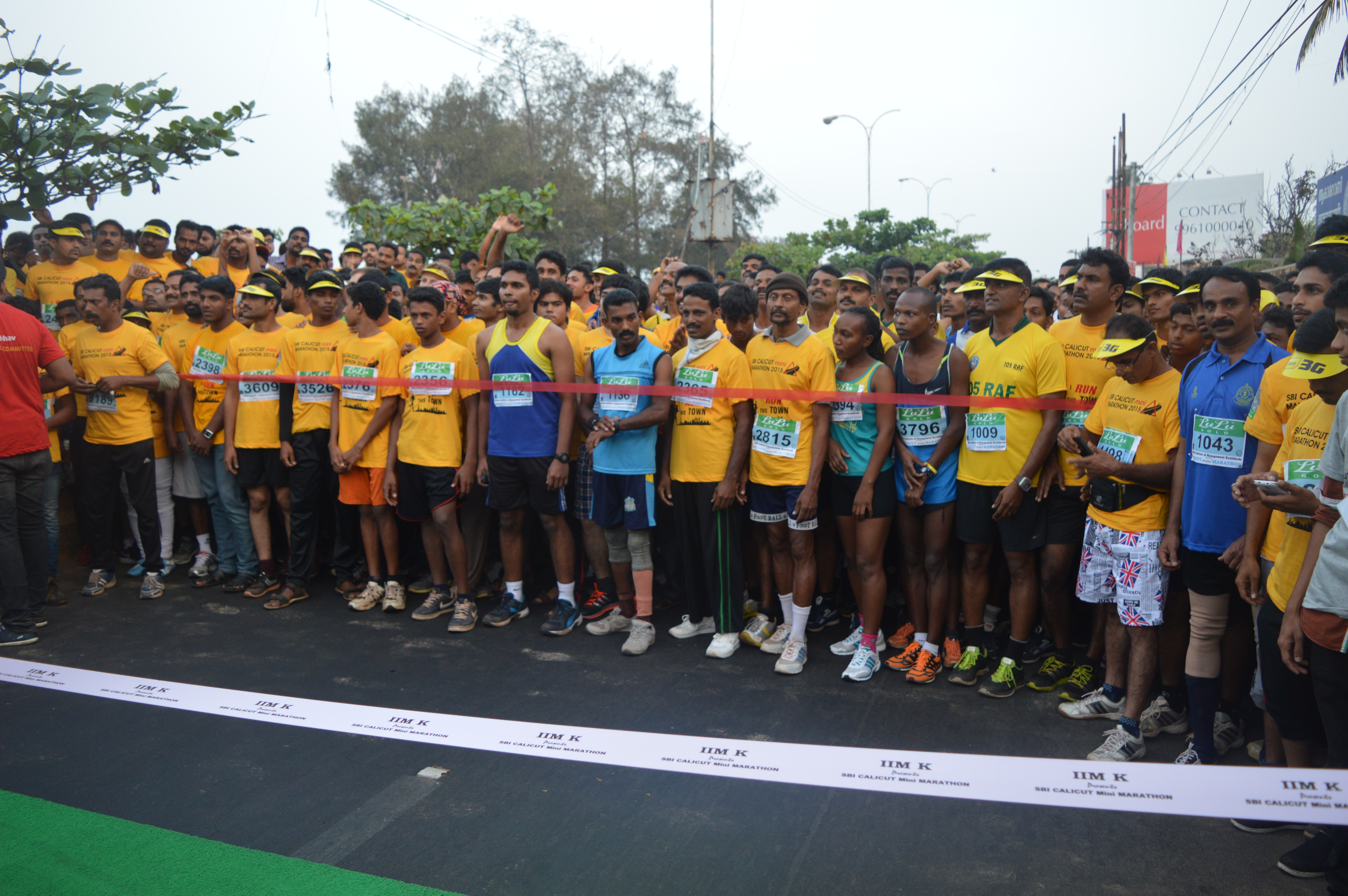 The Calicut Mini Marathon was flagged off on March 1, 2015. The run was based on theme road safety.